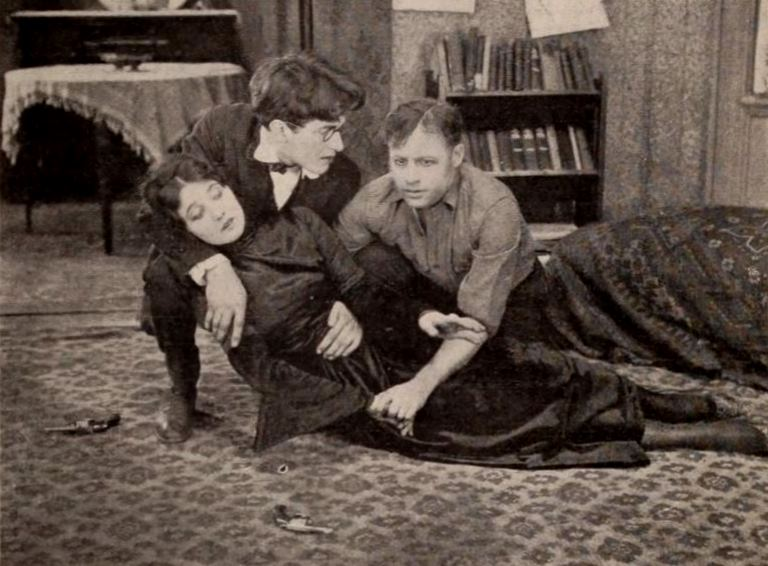 Still from the American drama film The Undercurrent (1919) with Betty Blythe, Frederick Buckley and Arthur Guy Empey, on page 63 of the September 6, 1919 Exhibitors Herald. The caption states that Empey rushed to the stronghold of the Reds only to find that one of the leaders has shot herself.